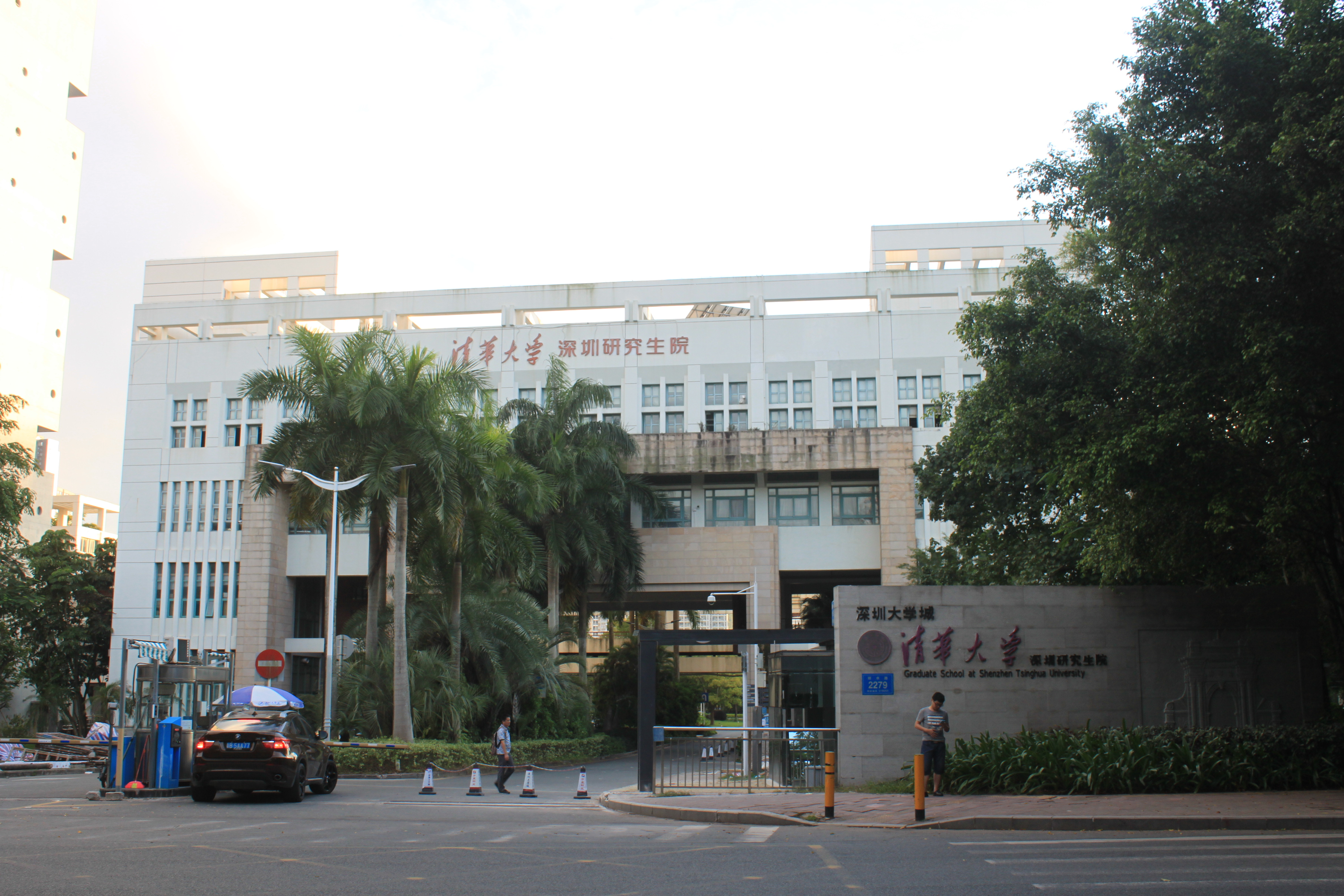 Teaching Building of the Graduate School at Shenzhen, Tsinghua University.